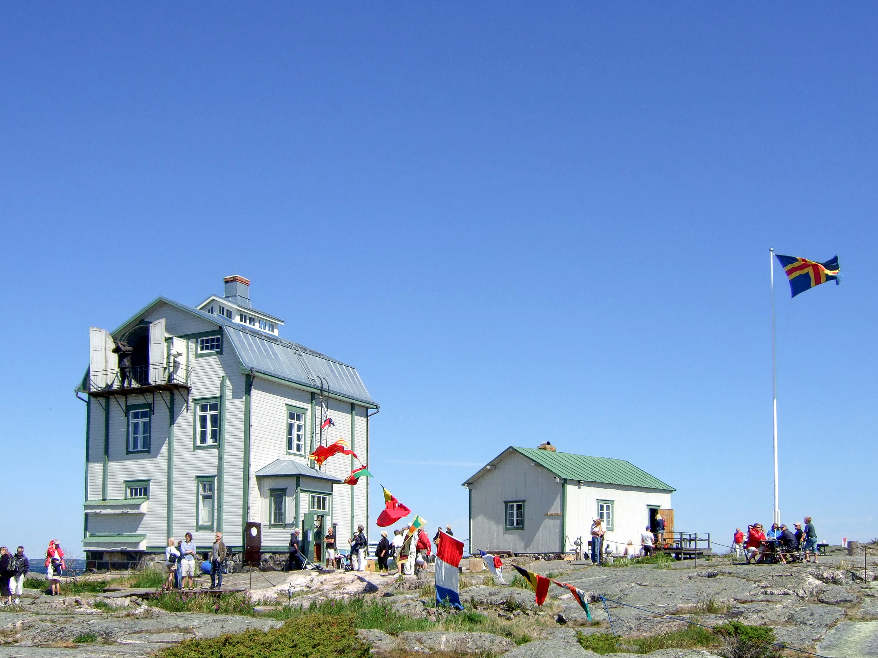 Kobba Klintar, Mariehamn, Åland